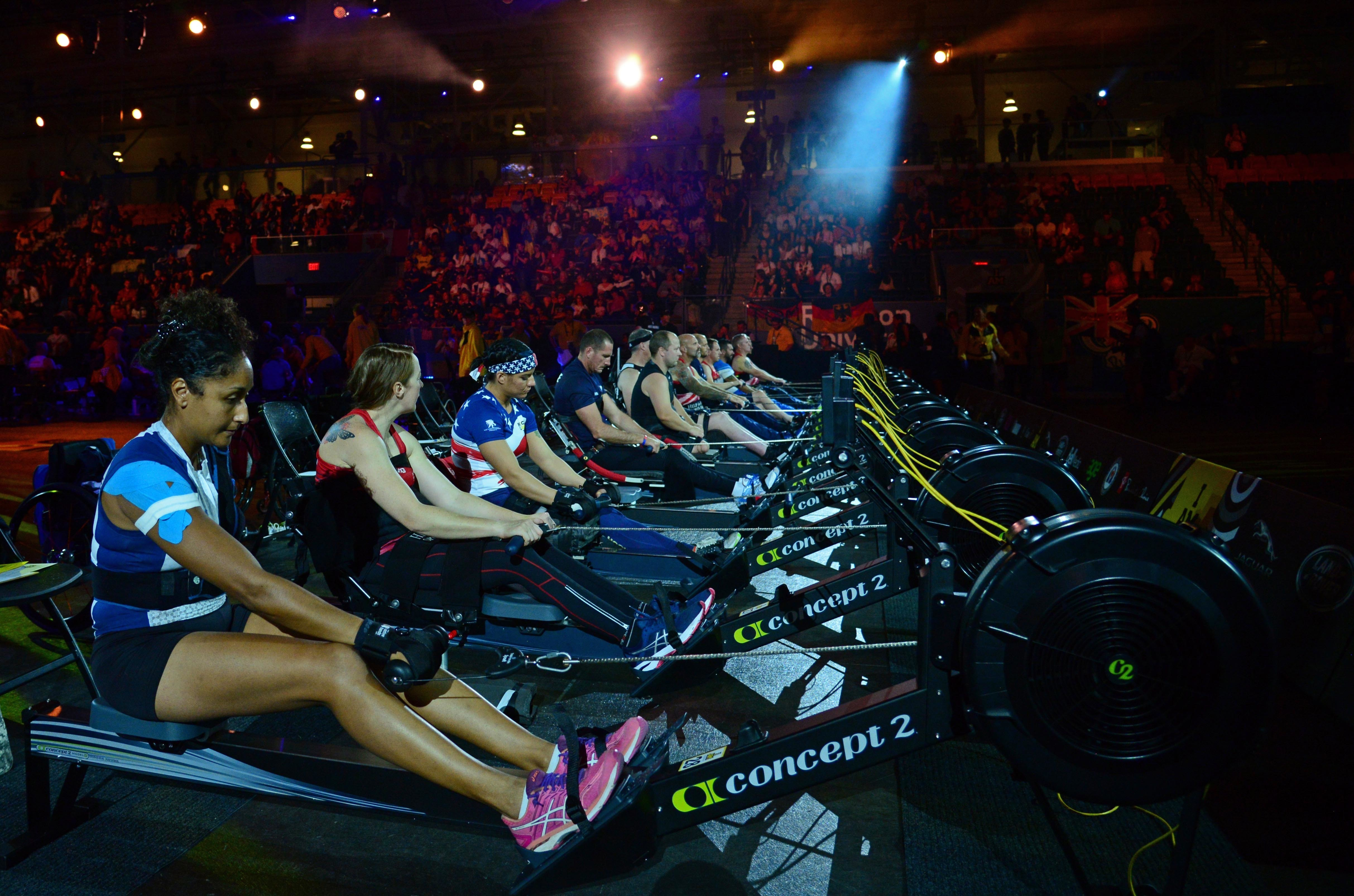 Athletes prepare to compete in the indoor rowing portion of the 2017 Invictus Games at the Mattamy Sports Centre in Toronto, Canada, Sept. 26, 2017. This year’s Invictus Games, Sept. 23-30, are an international program created by Prince Harry of Wales, in which wounded, injured, or sick active-duty and veteran service members compete in adaptive sports. (U.S. Air Force photo by Staff Sgt. Alexx Pons) Unit: Air Force Personnel Center DVIDS Tags: IAM; InvictusGames; 2017InvictusGames; IG2017